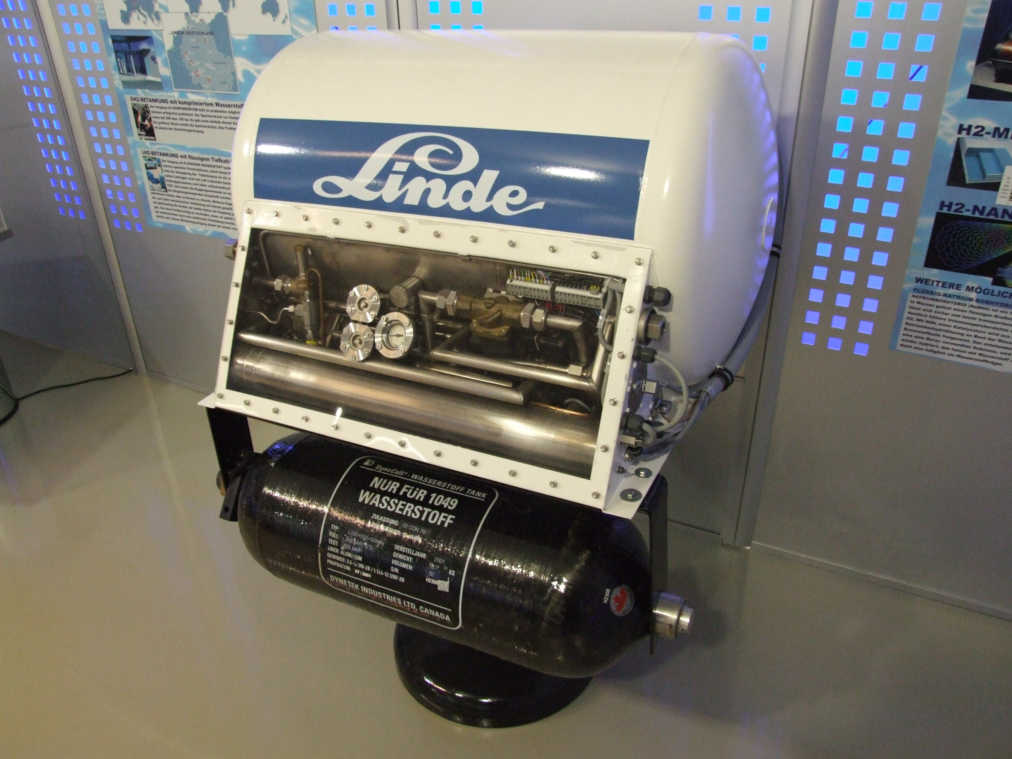 Tank for liquid H2 compared against a high pressure hydrogen cylinder below, made from carbon fiber composite/metal with a working pressure of 350 bar, produced by Dynetek Industries LTD Museum Autovision, Altlußheim, Germany